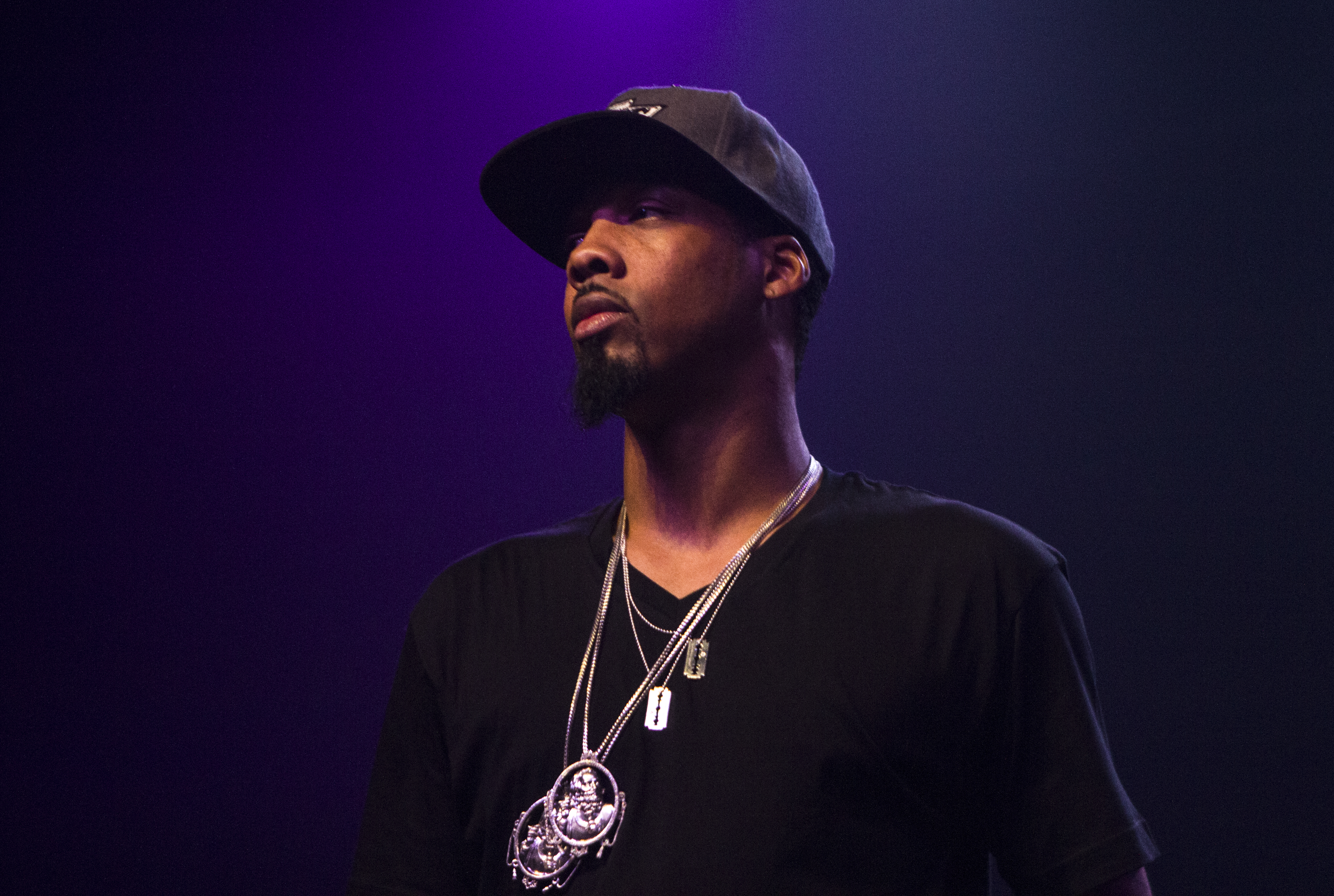 Image of American rapper Chevy Woods during December 2013